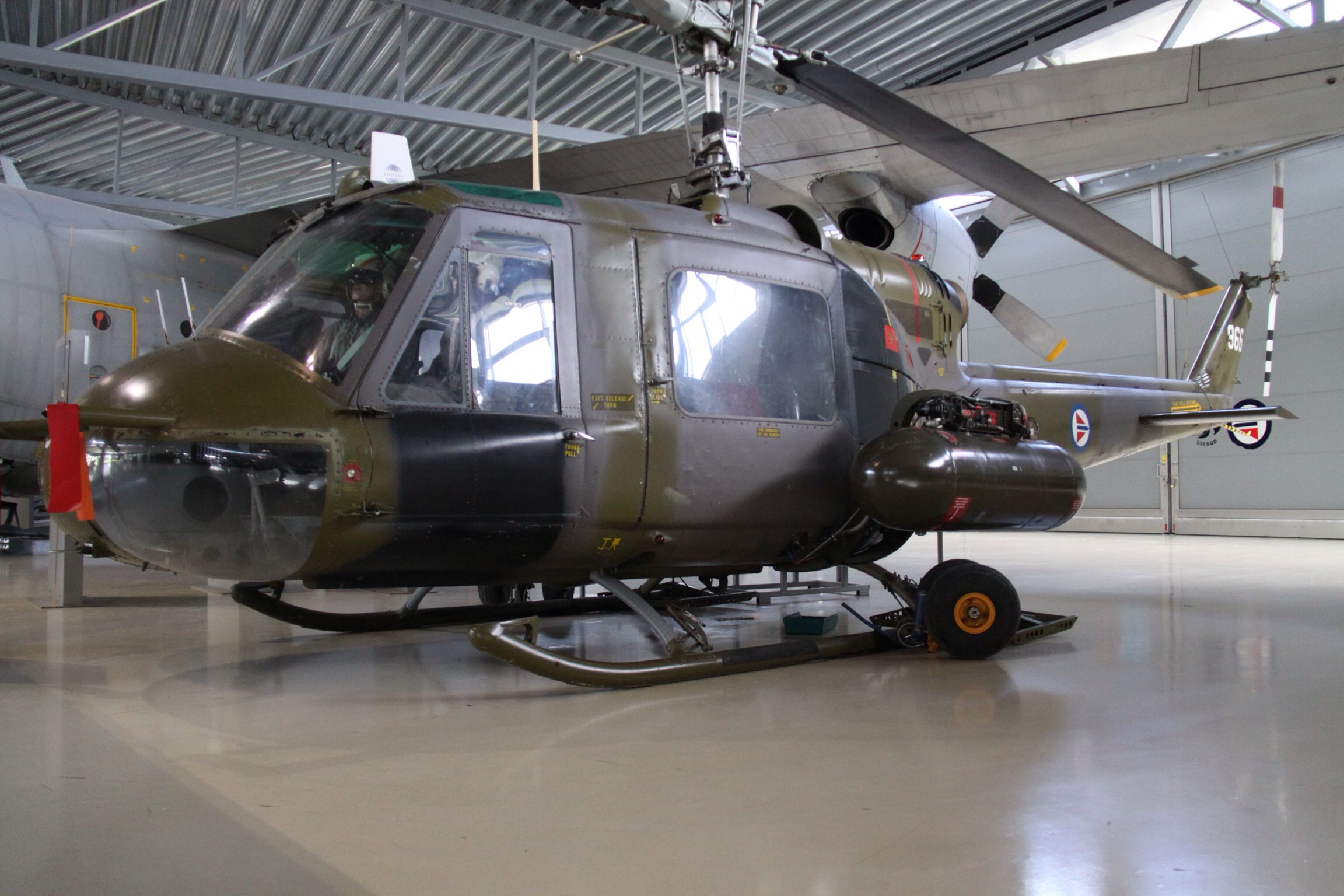 At Oslo Gardermoen